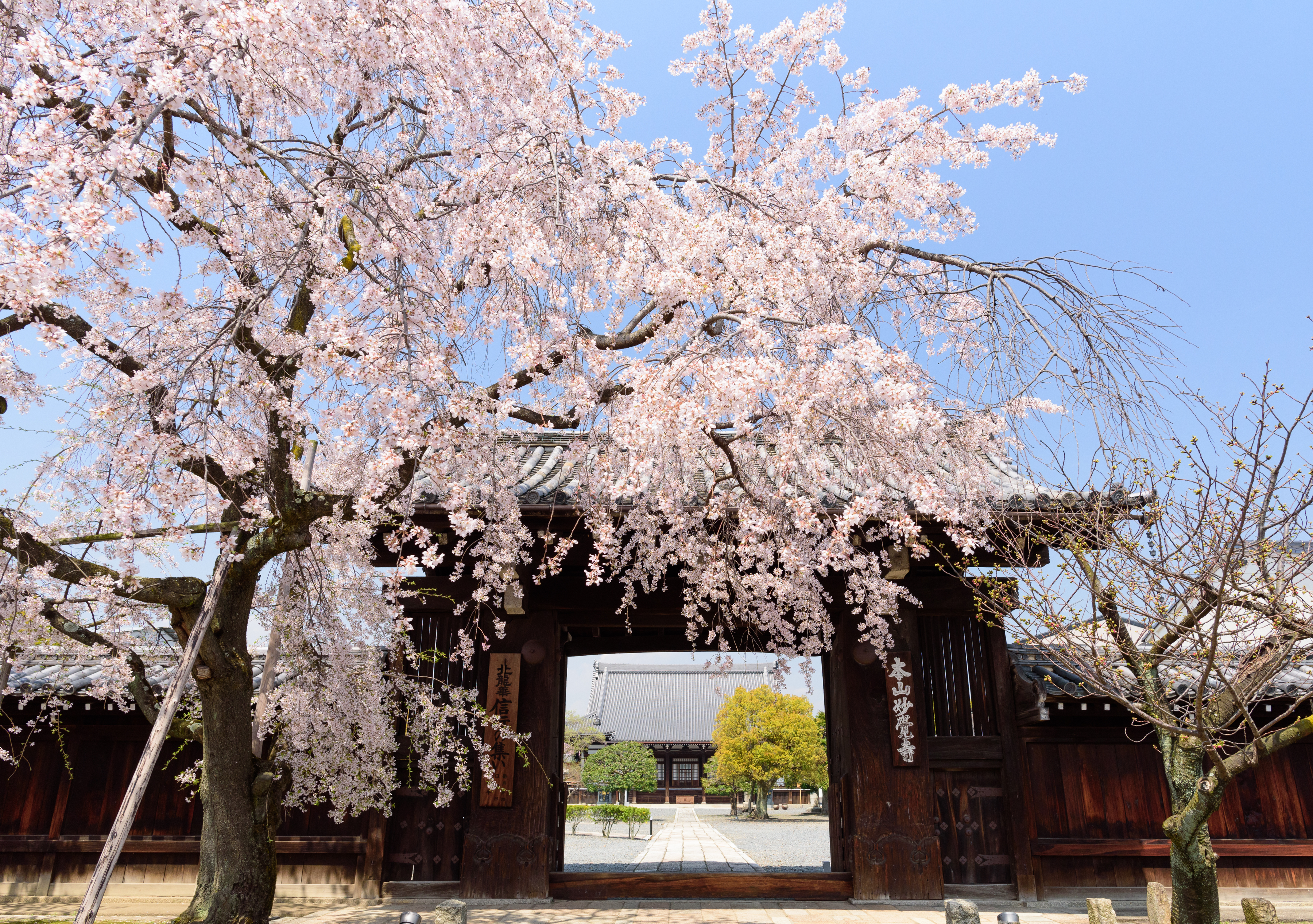 Myokakuji Temple, Kamigyo-ku, Kyoto, Japan